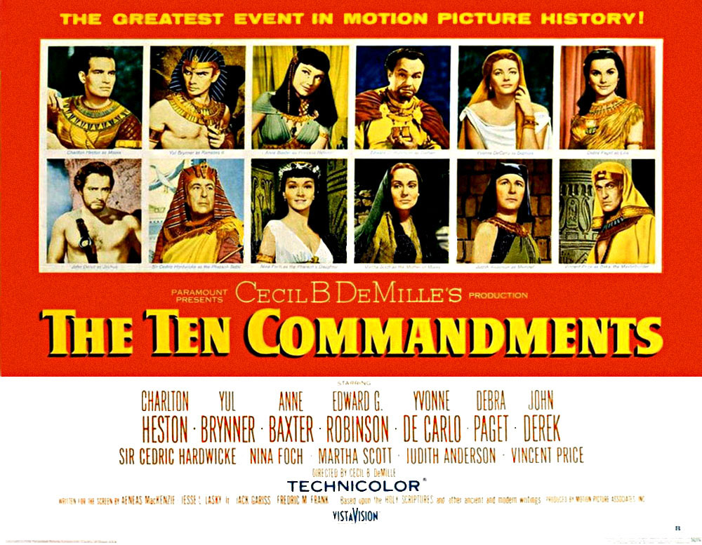 Movie poster of The Ten Commandments (1956).